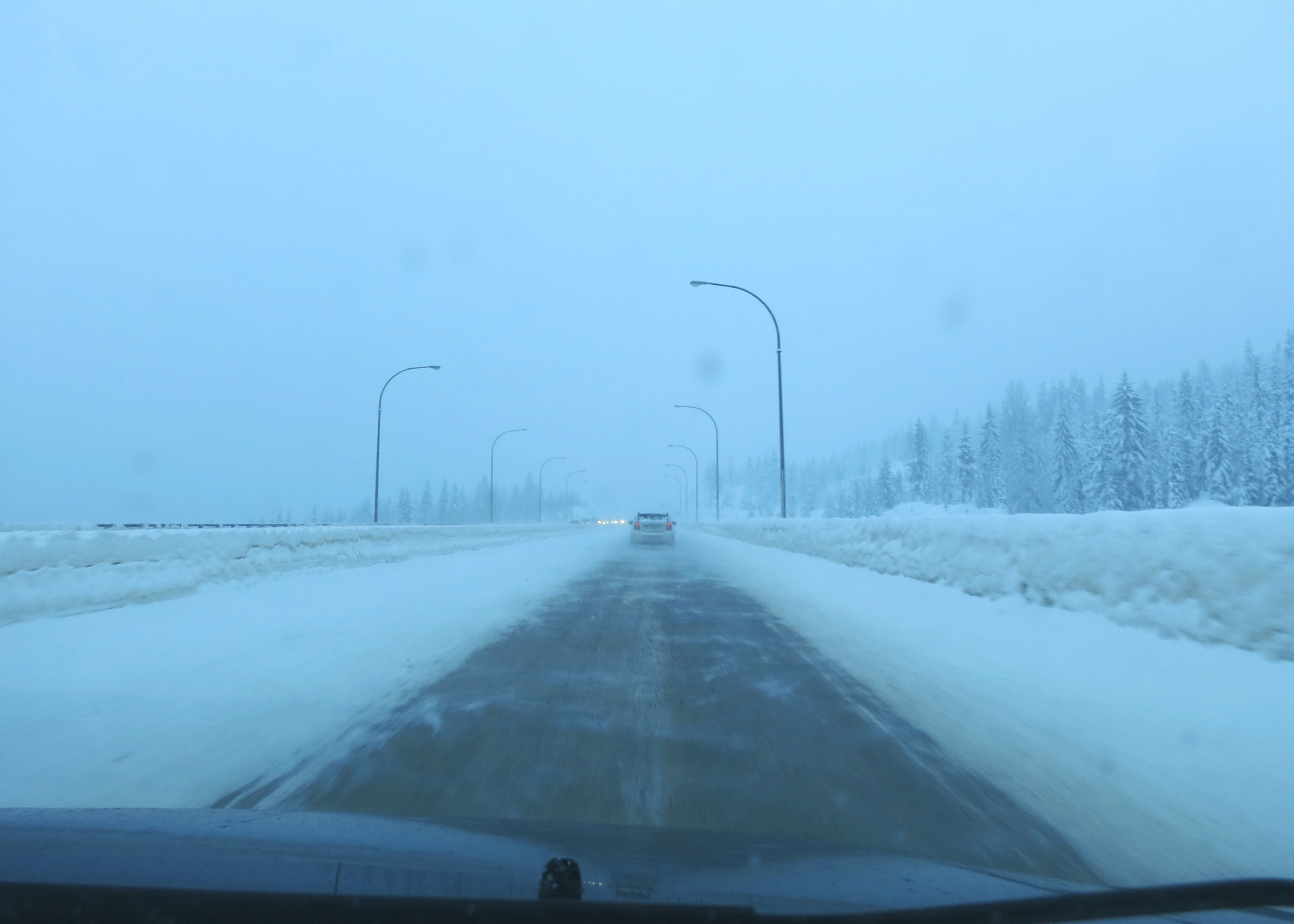 Driving on British Columbia's Coquihalla highway in wintry conditions.